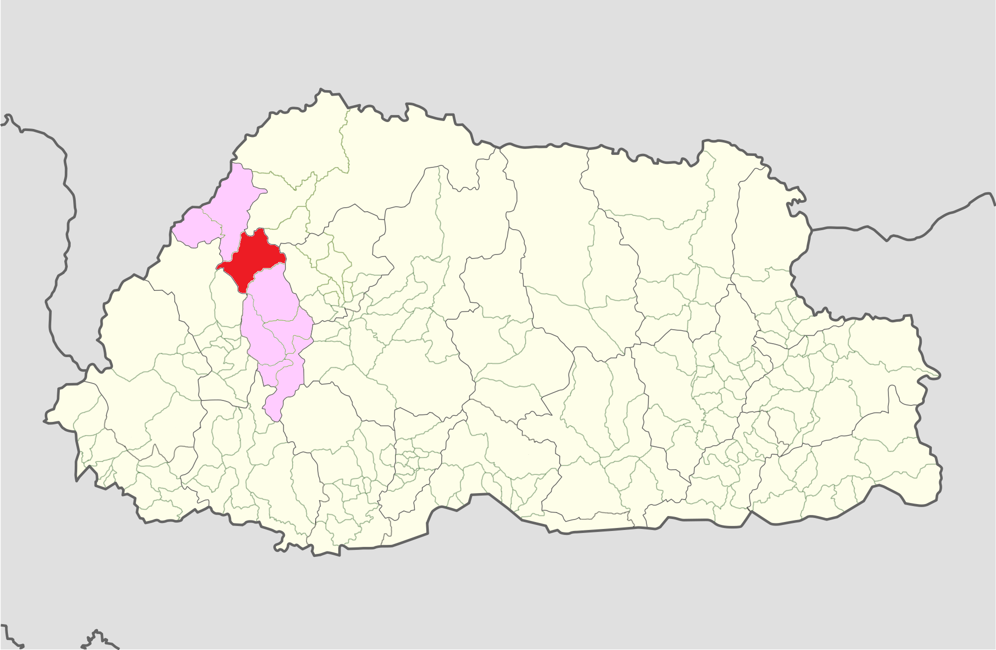 Naro Gewog within Thimphu District, Bhutan